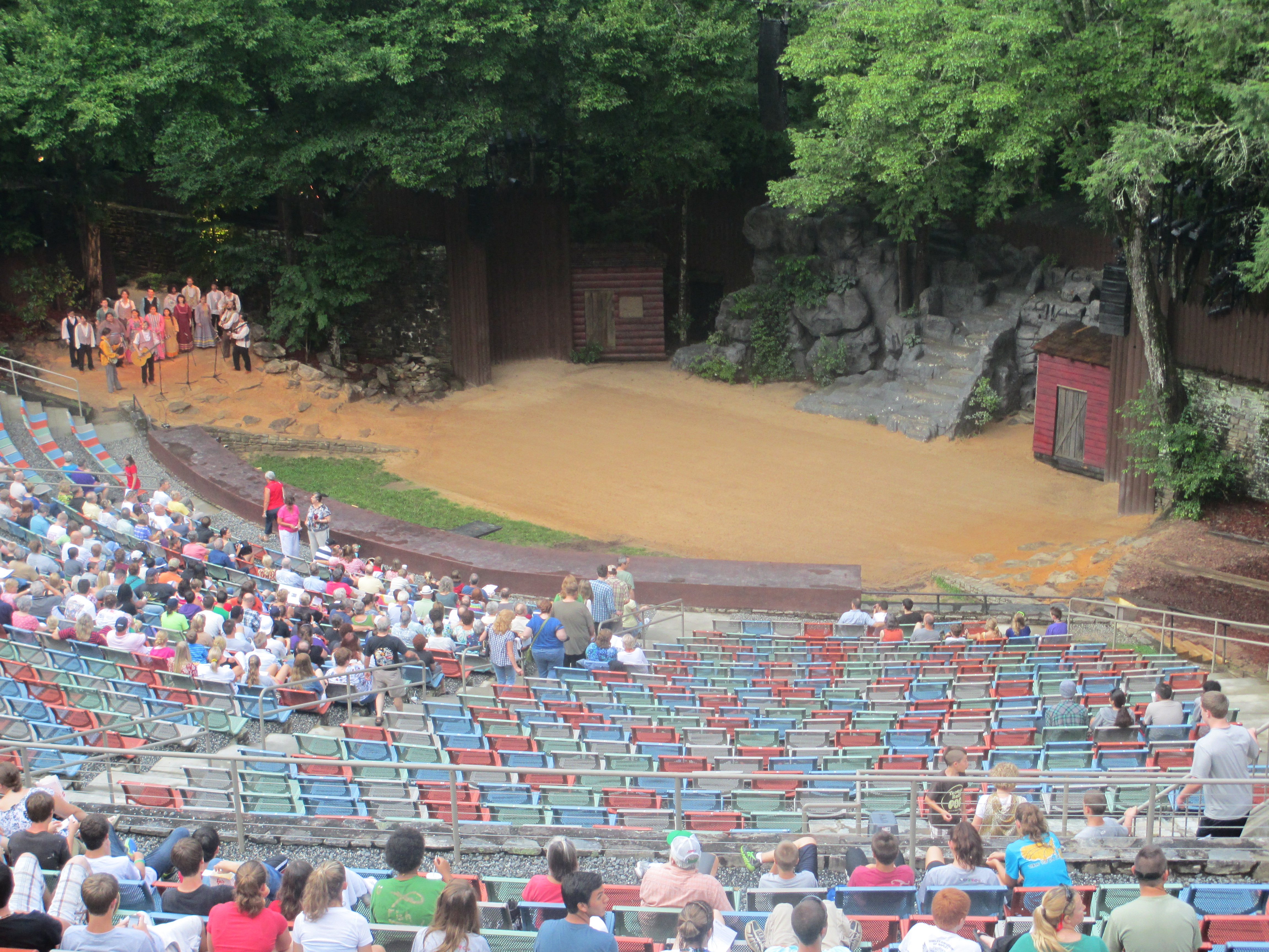 I took photo at Mountainside Theater in Cherokee, NC, with Canon camera.